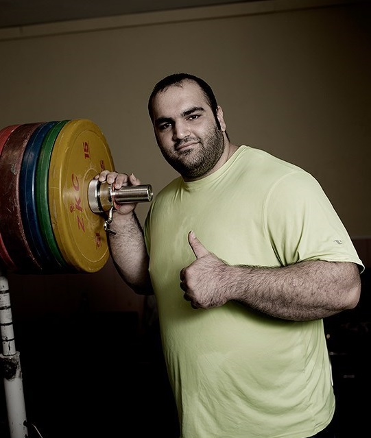 Behdad Salimi